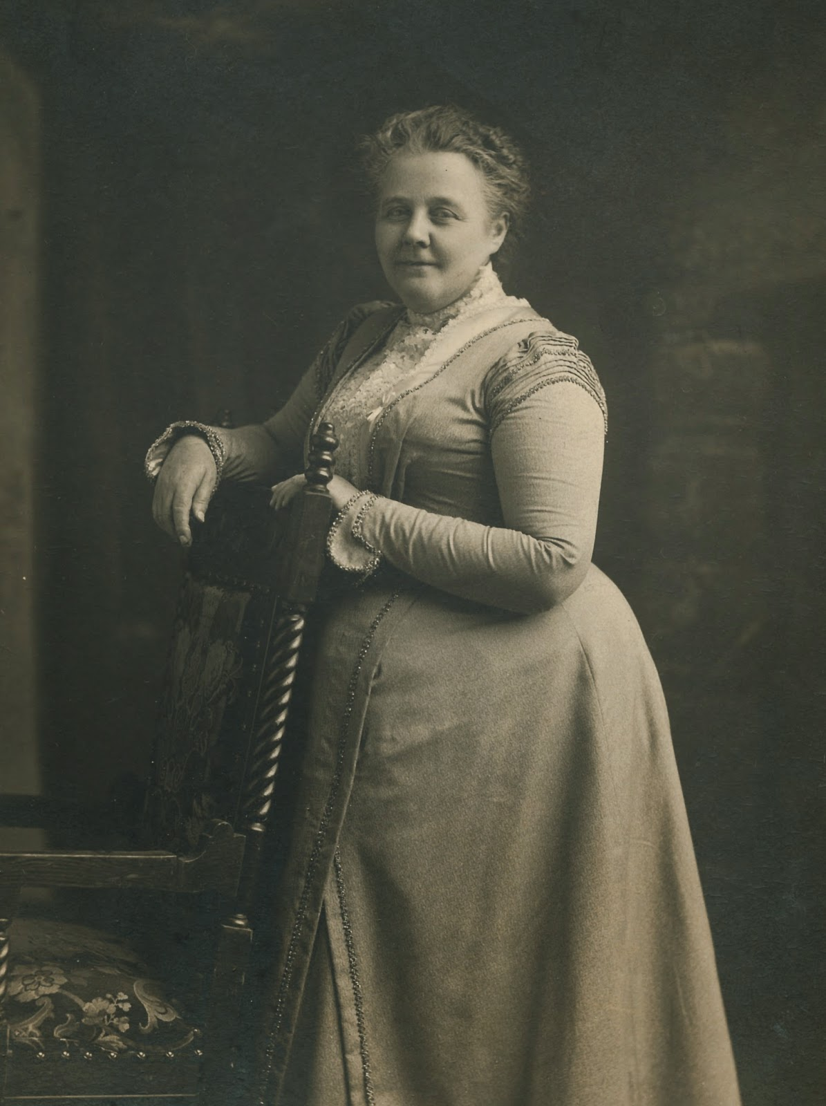 Sarah Doan La Fetra, 1919